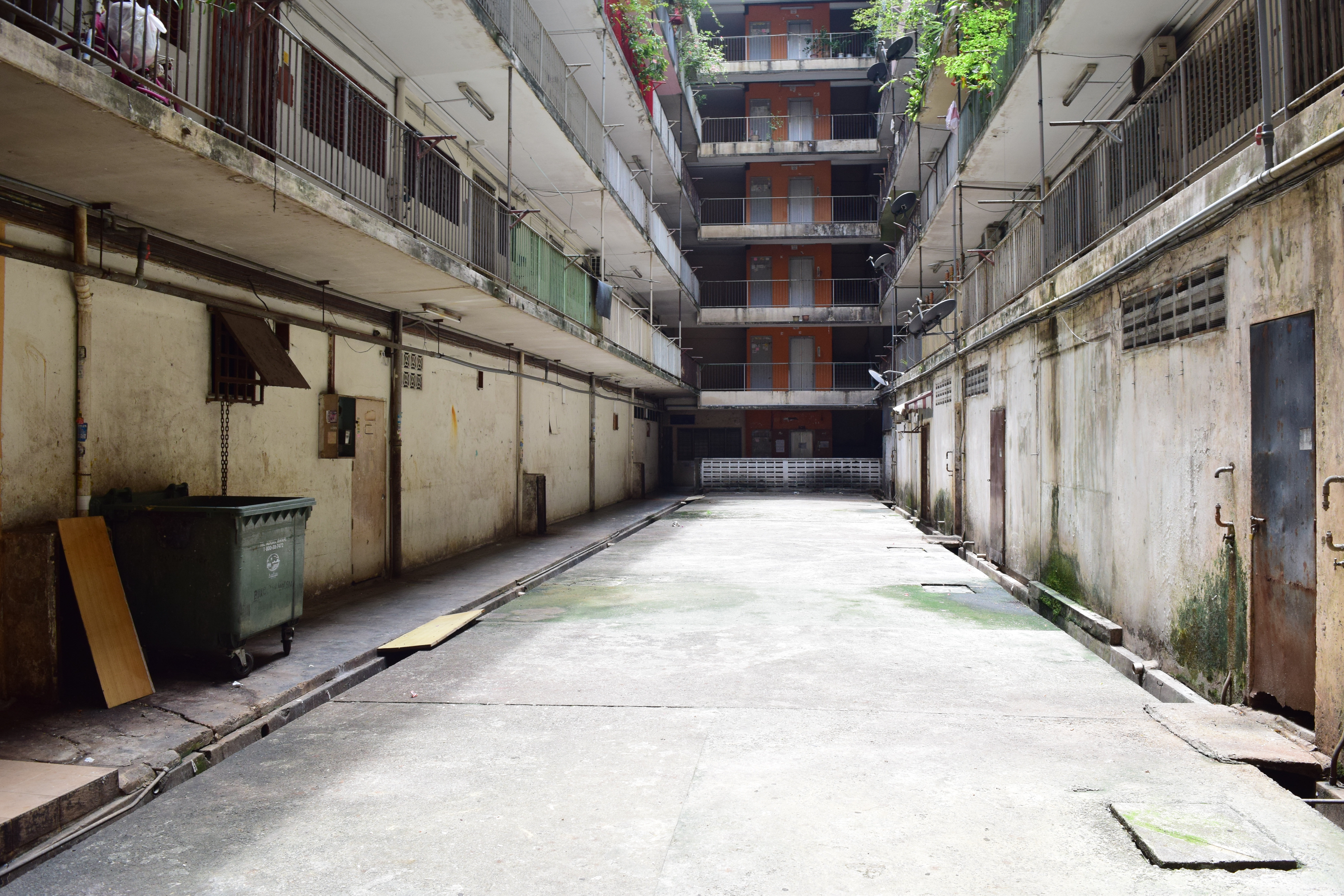 Courtyard of Blue Boy Mansion